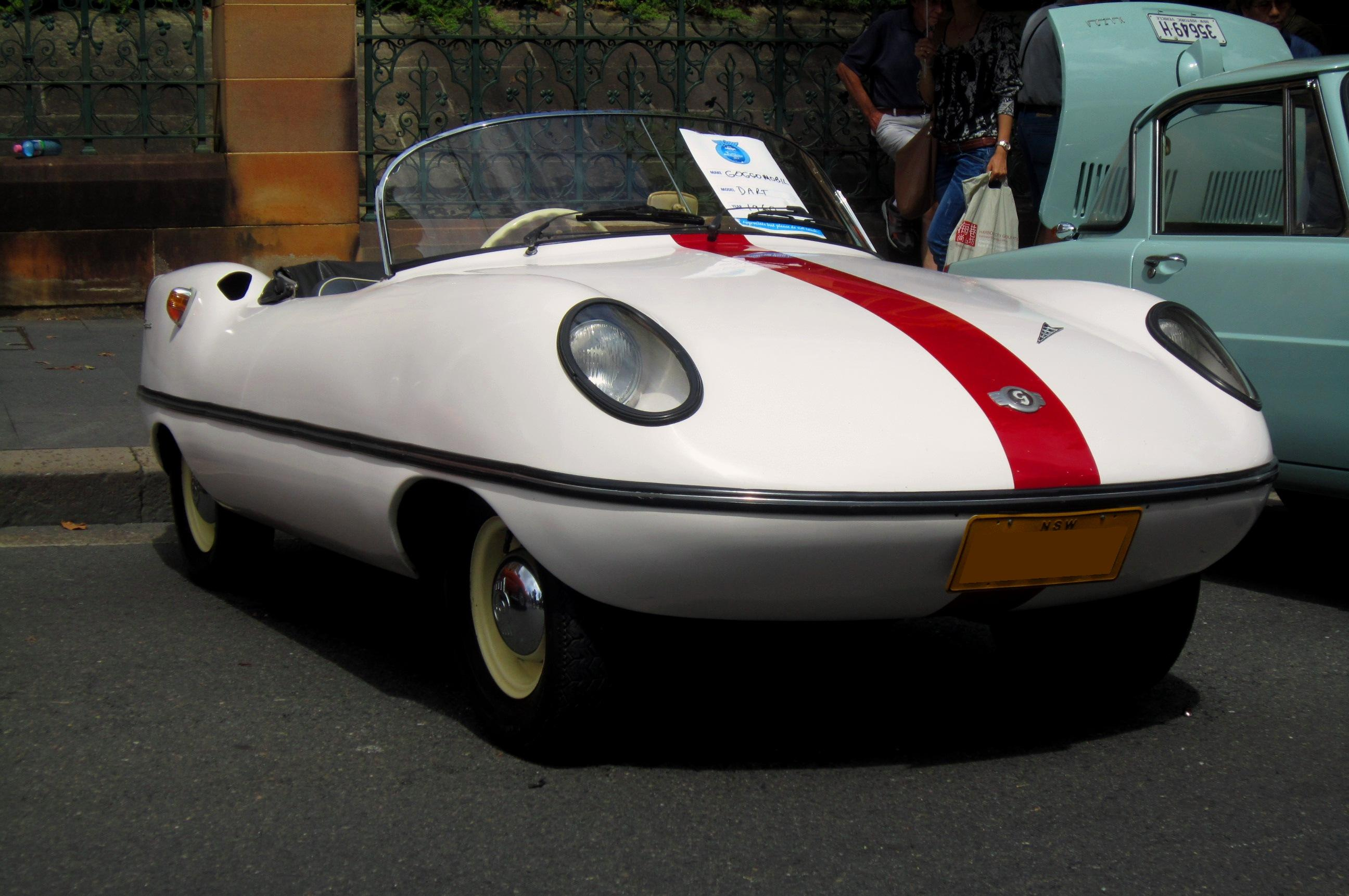 Here is just a sample of over 1000 of the highlighted classics on show, on the day.! You can check out a video preview of the NRMA Motorfest 2011 highlights here; You can also check out the latest NRMA car reviews and tests here at